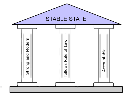 To be used in the article The Origins of Political Order